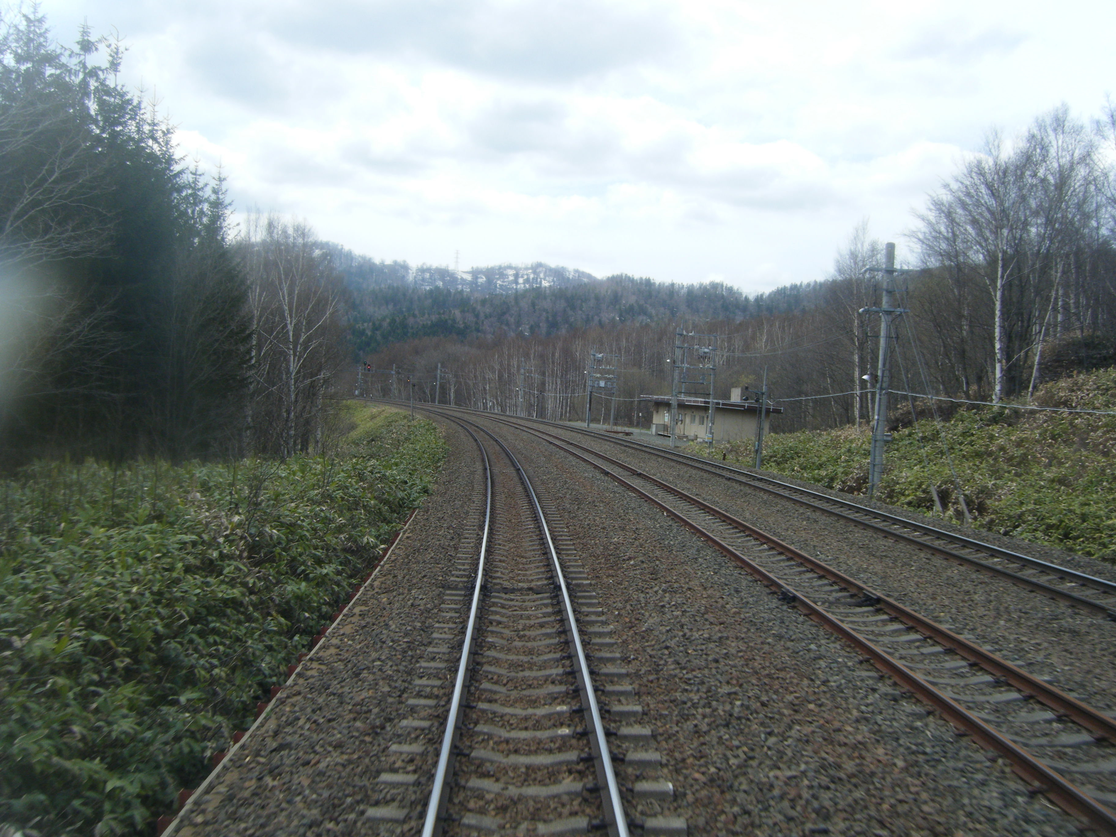 Horoka Signal Base viewed from Super Ozora train